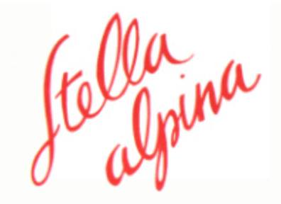 Stella Alpina logo